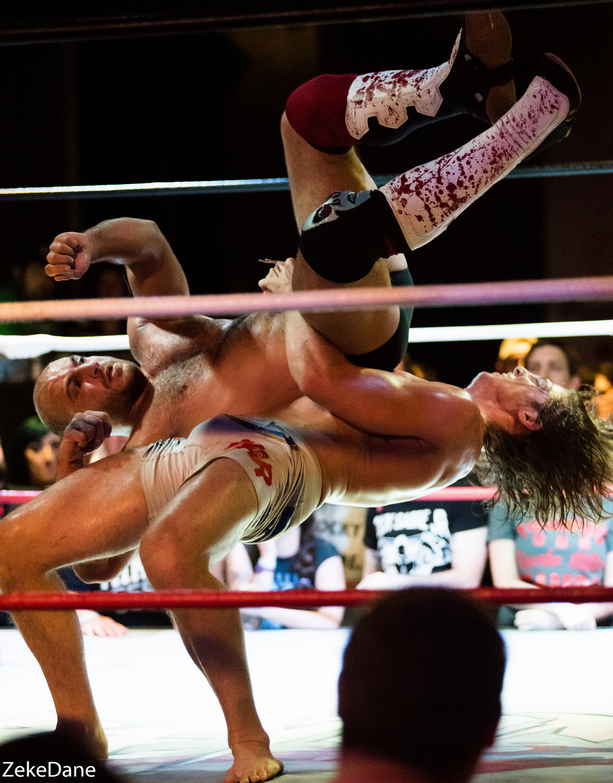 Matt Riddle and Chris Dickinson